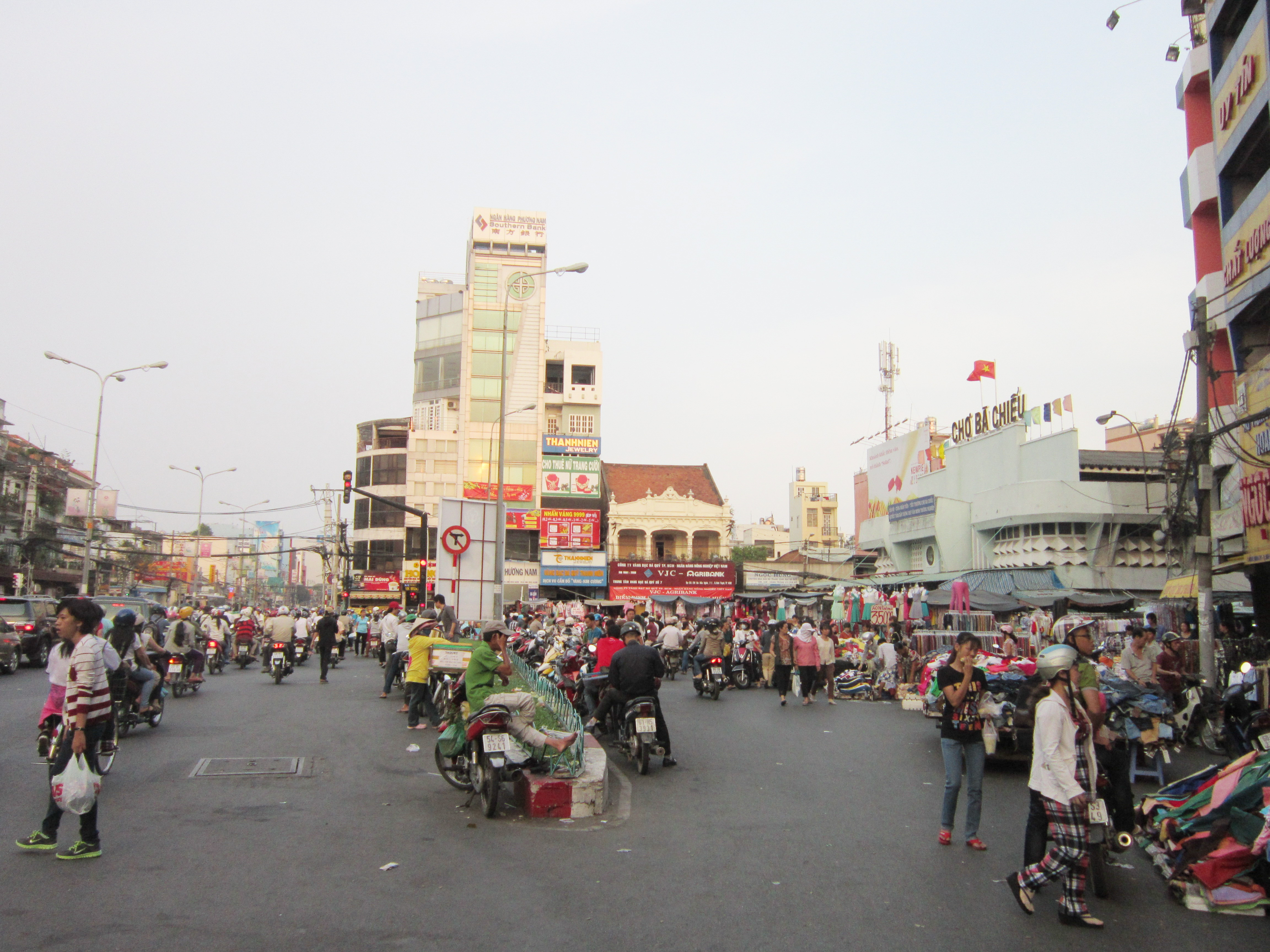 Bà Chiểu Market near Bình Thạnh